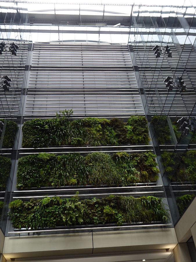 Green wall in Britomart Transport Centre